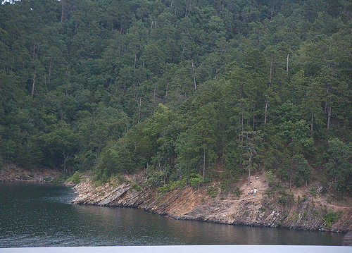 Beavers Bend Resort Park. An example of the area's geology.